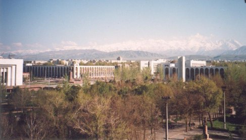 Bishkek, Kyrgyzstan Photo by Hunne from the German Wikipedia.